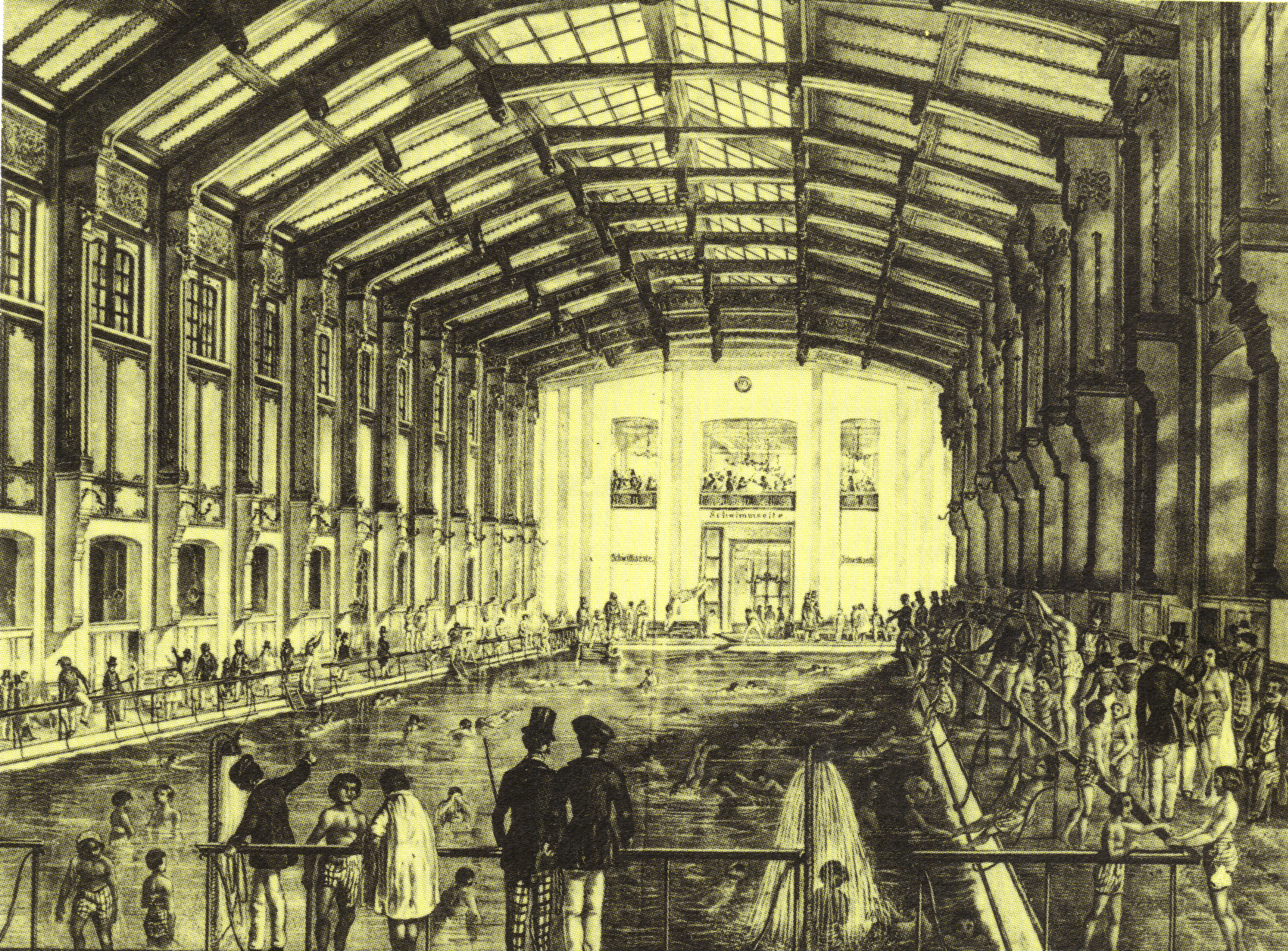 Indoor swimming pool and dancehall Sophienbad, Vienna